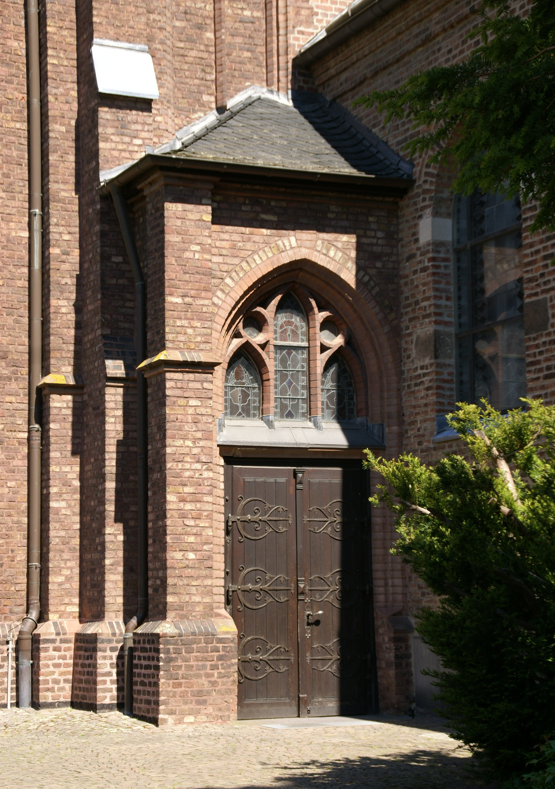 Side entrance of the catholic church St. Matthäus in Alfter